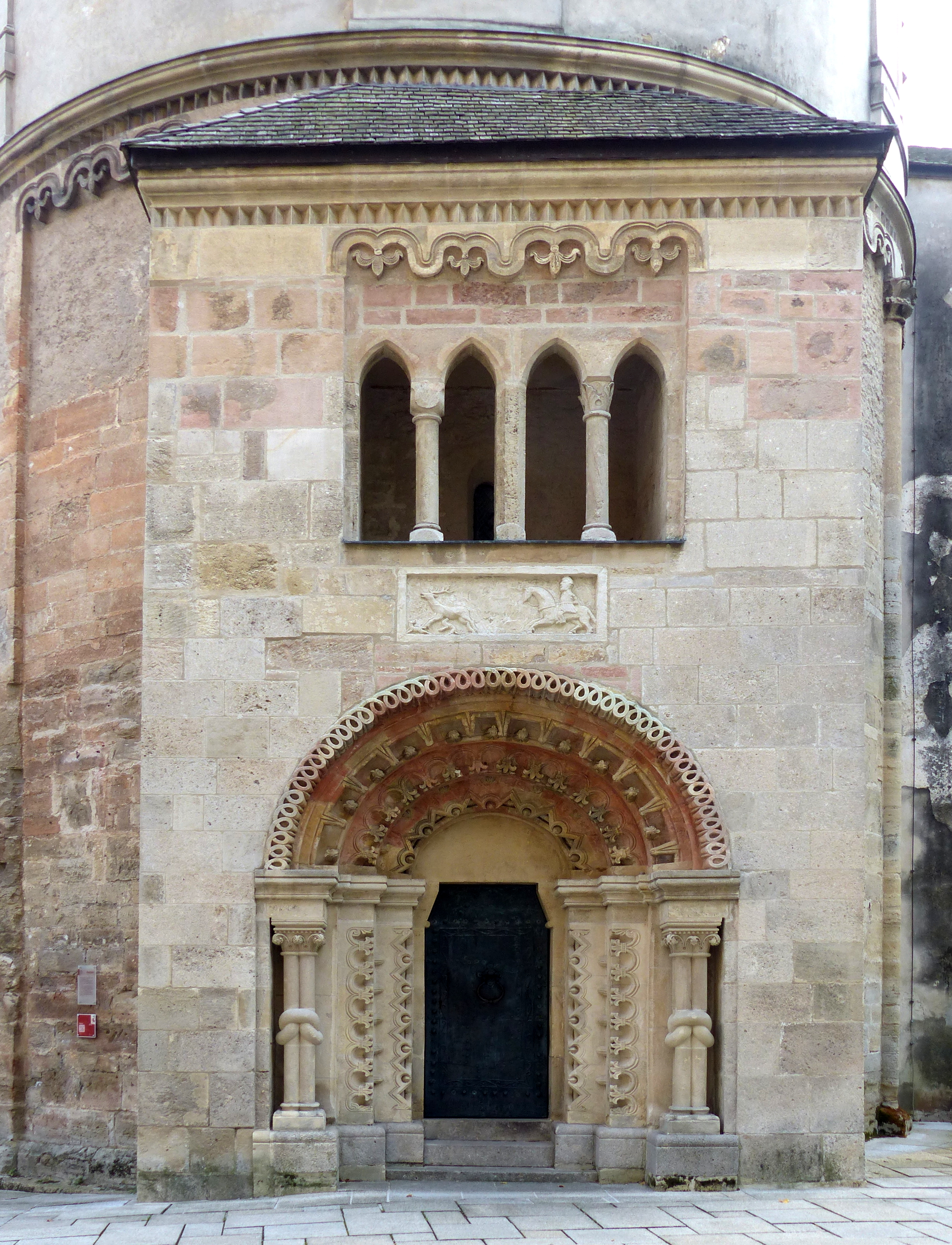 Mödling ( Lower Austria ). Saint Panaleon ossuary church ( 13th century ) - Romanesque narthex.